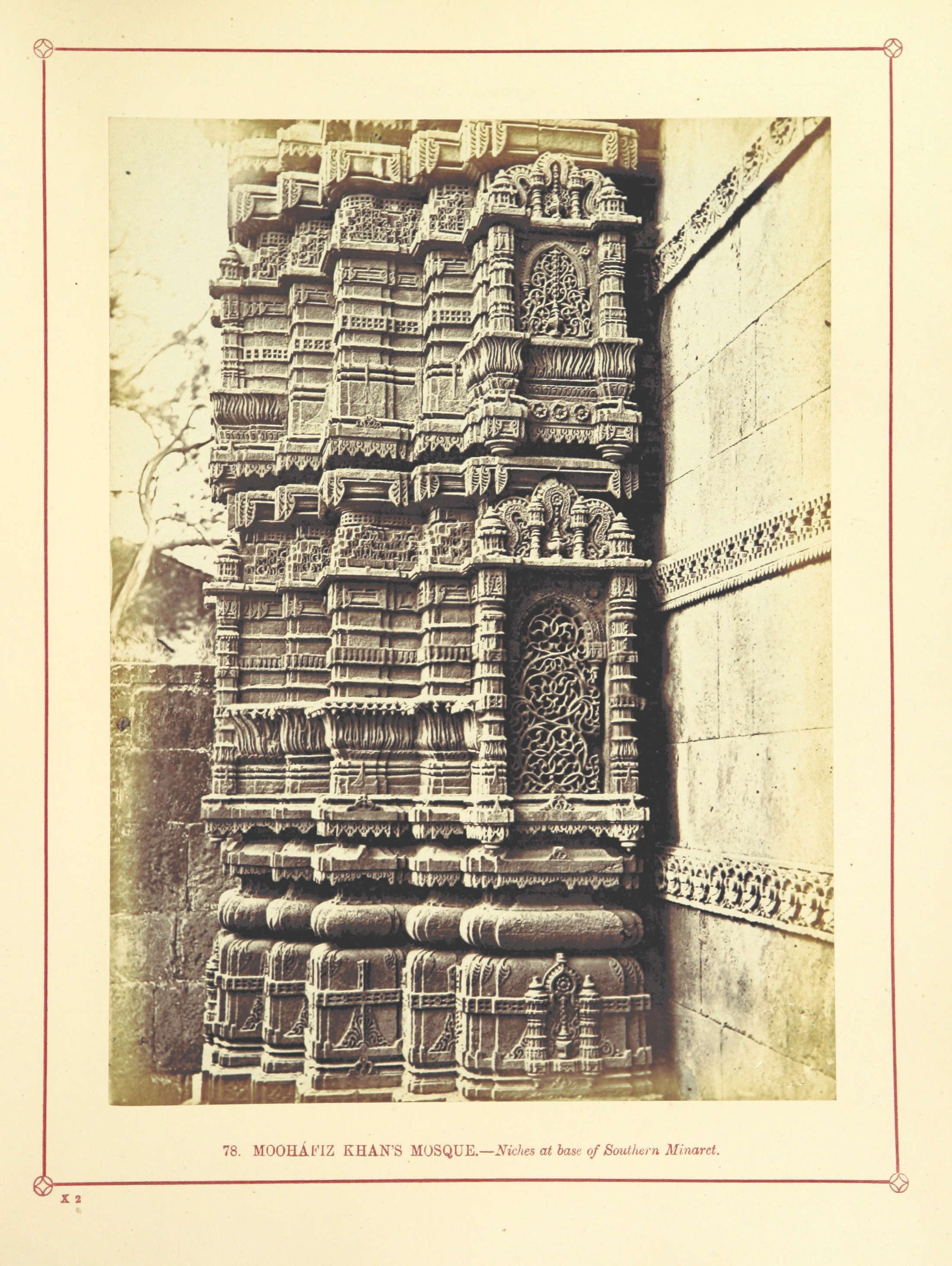 Image taken from: Title: "Architecture at Ahmedabad, the Capital of Goozerat, photographed by Colonel Biggs, ... With an historical and descriptive sketch, by T. C. H., ... and architectural notes by J. Fergusson, etc" Author: HOPE, Theodore Cracraft - Sir, K.C.S.I Contributor: BIGGS, Thomas. Contributor: FERGUSSON, James - Architect Shelfmark: "British Library HMNTS 10057.f.17.", "British Library OC V 6665" Page: 281 Place of Publishing: London Date of Publishing: 1866 Issuance: monographic Identifier: 001730119 Note: The colours, contrast and appearance of these illustrations are unlikely to be true to life. They are derived from scanned images that have been enhanced for machine interpretation and have been altered from their originals. If you wish to purchase a high quality copy of the page that this image is drawn from, please order it here. Please note that you will need to enter details from the above list - such as the shelfmark, the page, the book's volume and so on - when filling out your order. Following this or the link above will take you to the British Library's integrated catalogue. You will be able to download a PDF of the book this image is taken from, as well as view the pages up close with the 'itemViewer'. Click on the 'related items' to search for the electronic version of this work. Click here to see all the illustrations in this book and click here to browse other illustrations published in books in the same year. Please click on the tags shown on the right-hand side for other ways to browse the illustrations.